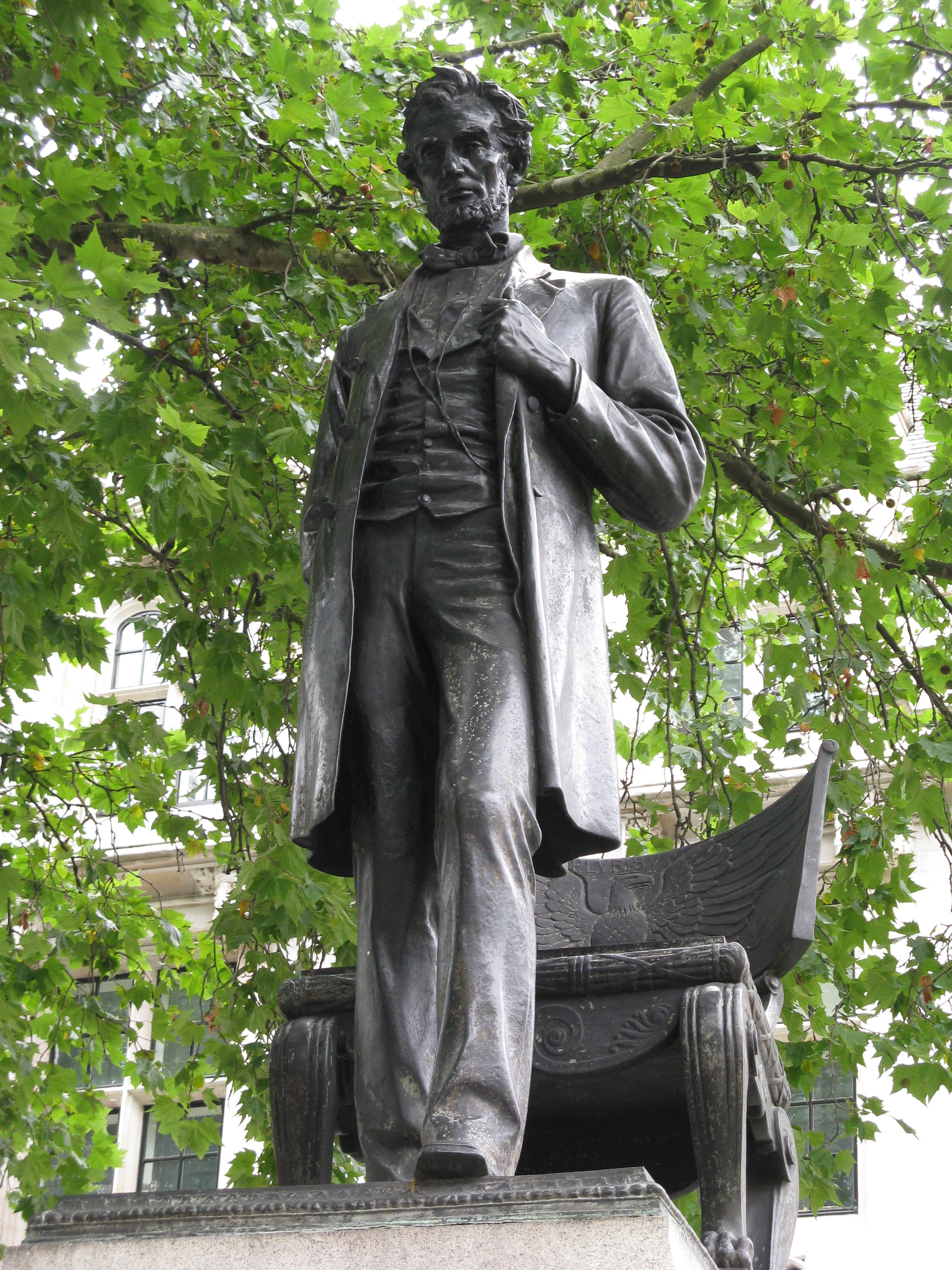 This bronze statue stands in Parliament Square in London.